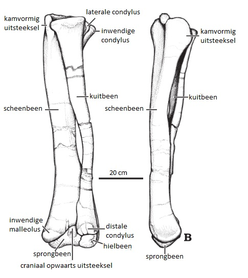 Left tibia, fibula, astragalus, and calcaneum in cranial (left) and medial views of Olorotitan arharensis Godefroit, Bolotsky & Alifanov, 2003 (AEHM 2-845, holotype). Upper Cretaceous of Kundur, Russia